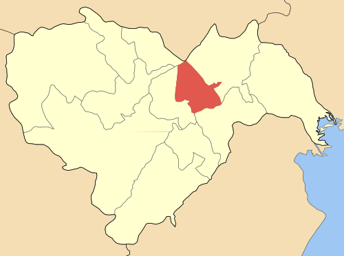 Locator map of Antigonidon municipality (Δήμος Αντιγονιδών at Imathias perfecture, Greece.